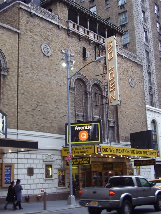 John Golden Theatre, NYC 2006. Photo by Mademoiselle Sabina